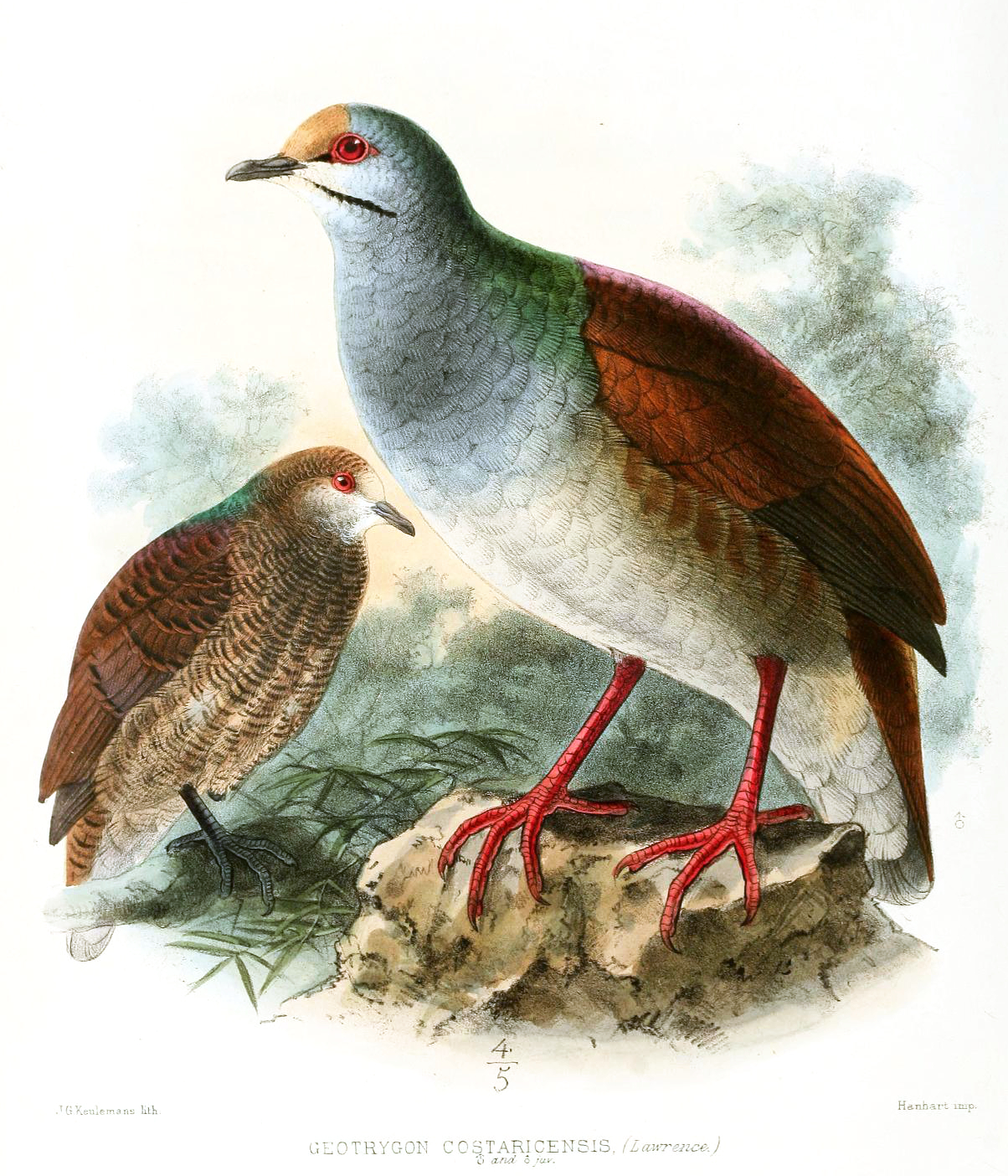 Geotrygon costaricensis